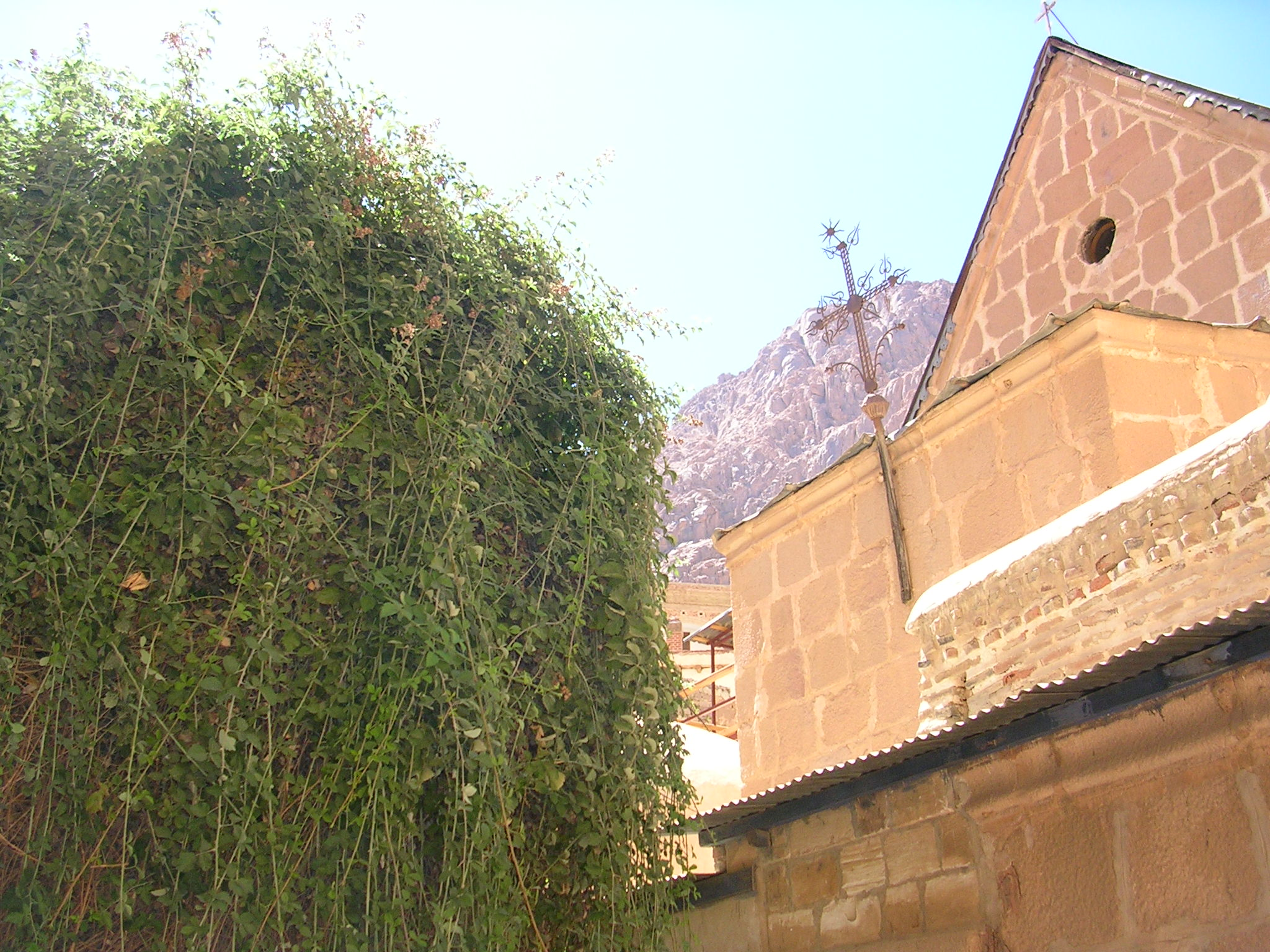 Burning bush in Saint Catherine's Monastery, Mount Sinai